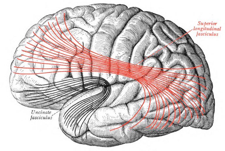 Superior longitudinal fasciculus. The association fiber is lateral to the centrum ovale of a cerebral hemisphere and connects the frontal, occipital, parietal, and temporal lobes.